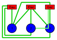 Unallowed solution for water, gaz and electricity enigma